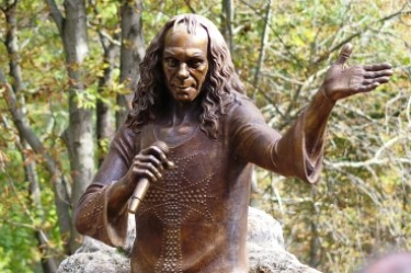 Ronnie James Dio monument in Kavarna, Bulgaria.